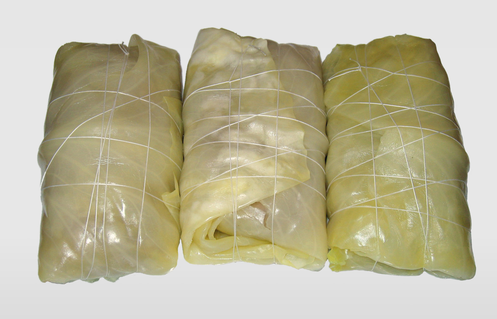 Cabbage rolls